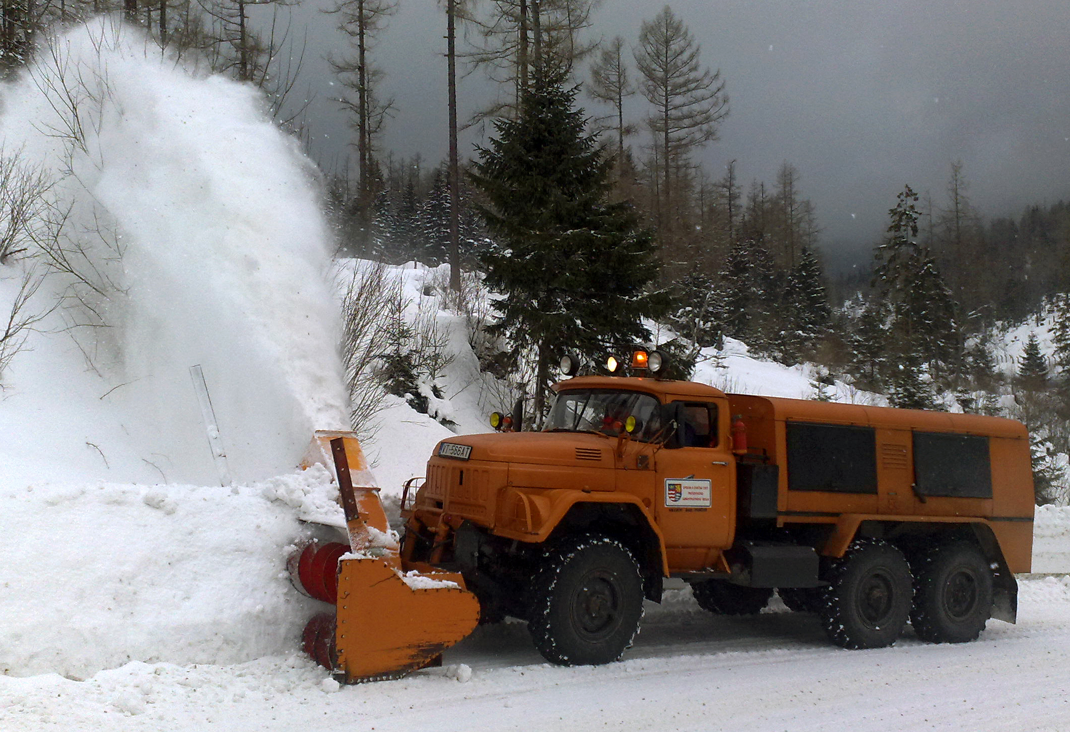 Snow blower ZIL 131